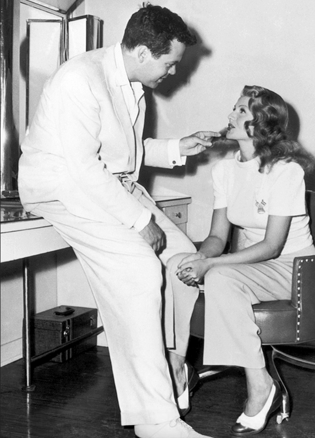 Photograph of Orson Welles and Rita Hayworth shortly before her hair was cut and bleached for The Lady from Shanghai. The publicity stunt was recorded by 16 photographers. (Sources: Barbara Leaming, If This Was Happiness, pp. 134–135; John Kobal, Rita Hayworth: The Time, the Place and the Woman, pp. 212–213)